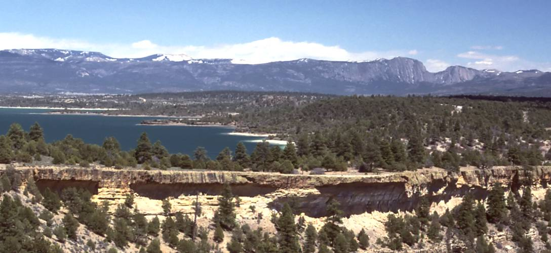 Heron Lake, in northern New Mexico, looking east from the Rio Chama. In the far distance is Brazos Peak (left) and the Brazos Cliffs (right), while at the bottom is the north wall of the Rio Chama Gorge.